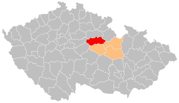 Pardubice District within Pardubice Region. Current borders of districts since January 1, 2007.